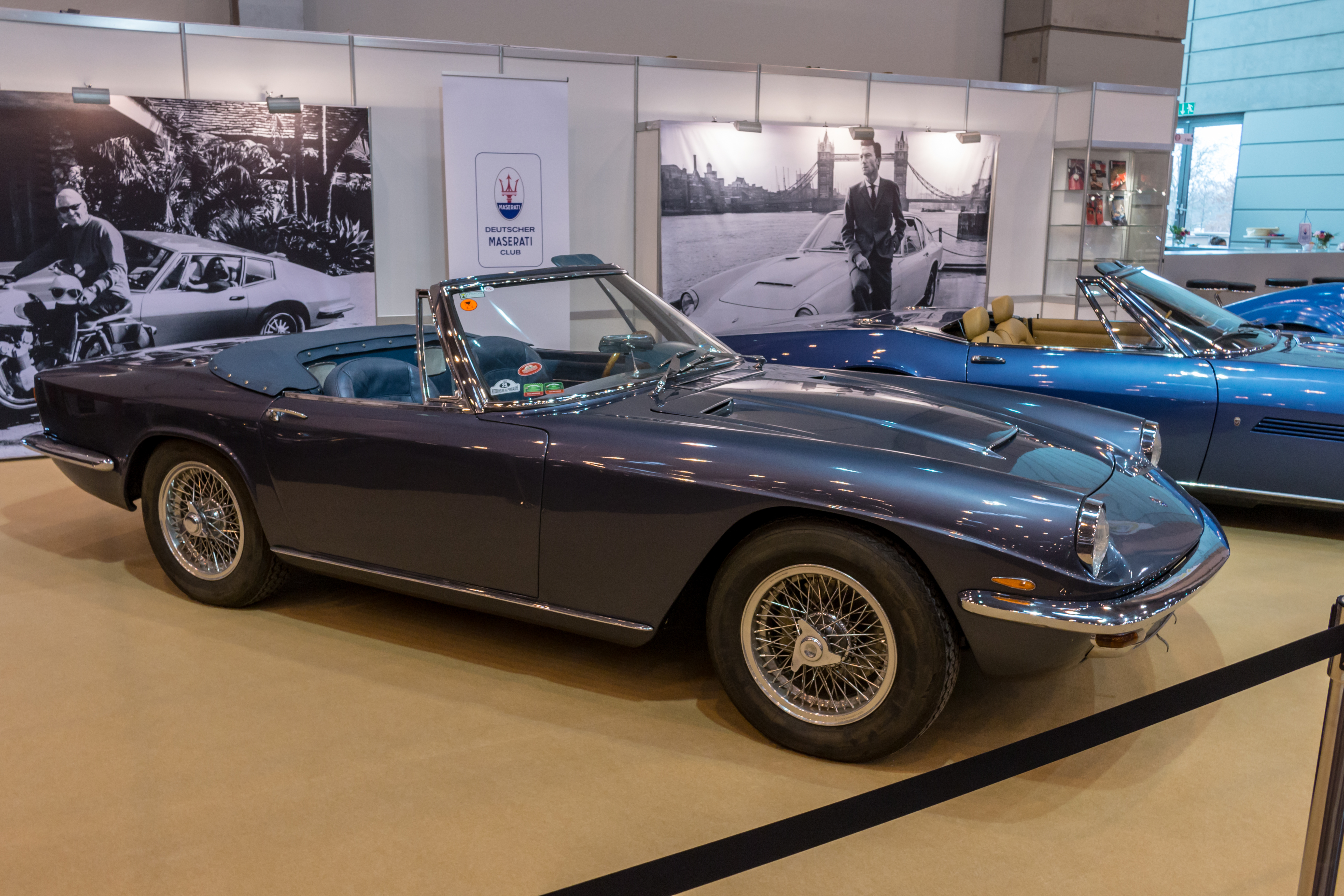 Techno Classica 2018, Essen